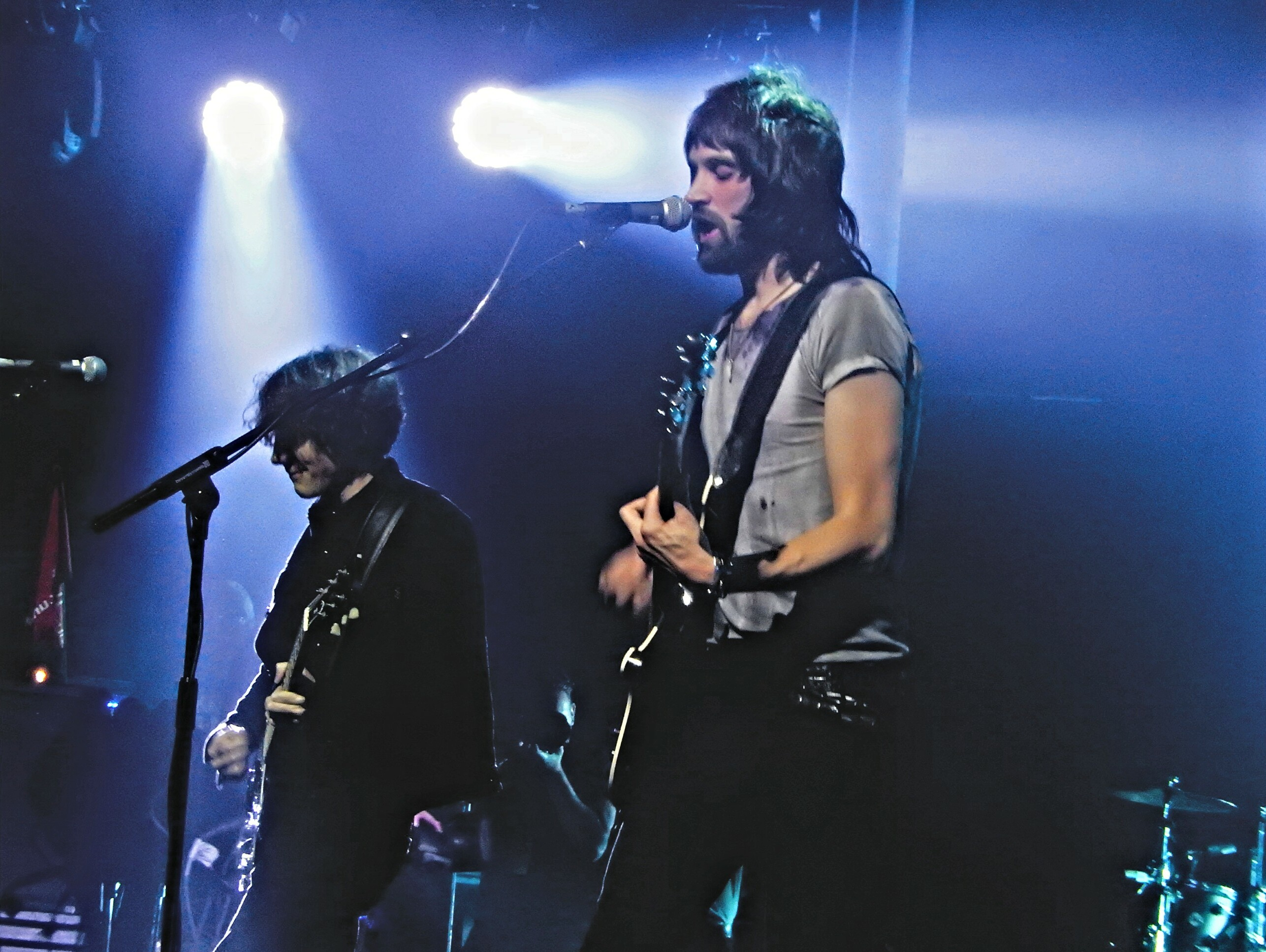 Kasabian, Roundhouse London, iTunes Festival 2014